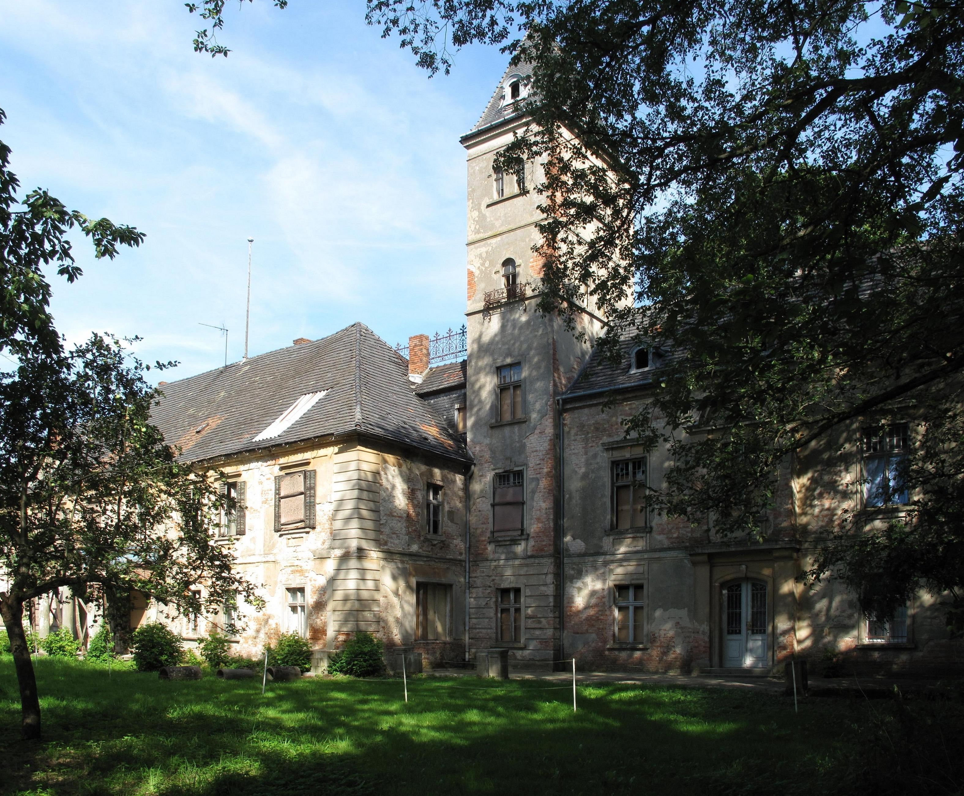 Listed Manor house Ragow, built in the 18th century. The tower was built around 1900. Ragow is a part of the municipality Ragow-Merz in the District Oder-Spree, Brandenburg, Germany.